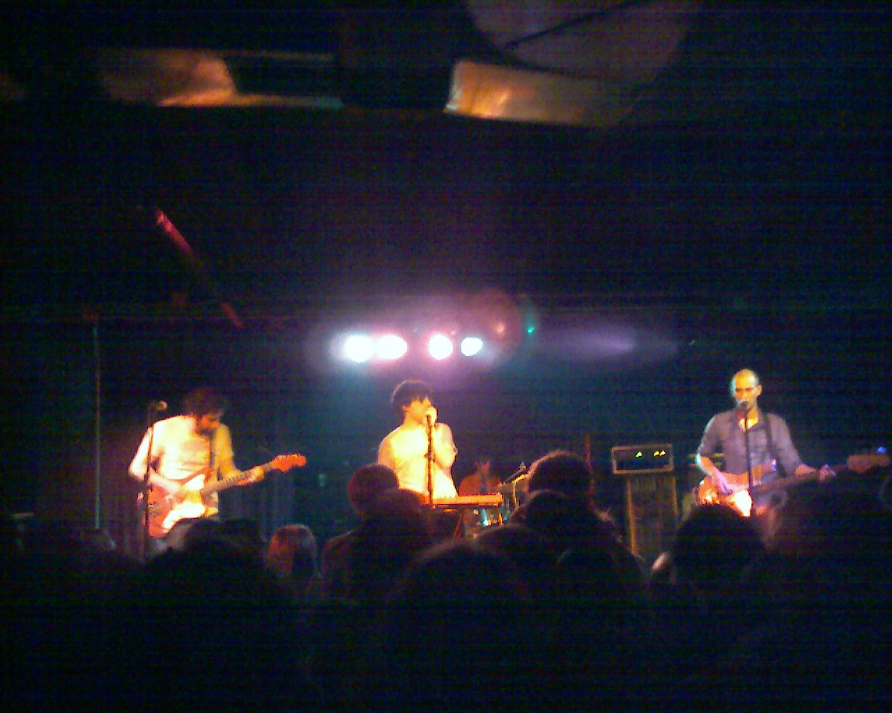 Super, thanks for asking. (Supersystem @ Black Cat, 1/7/06)